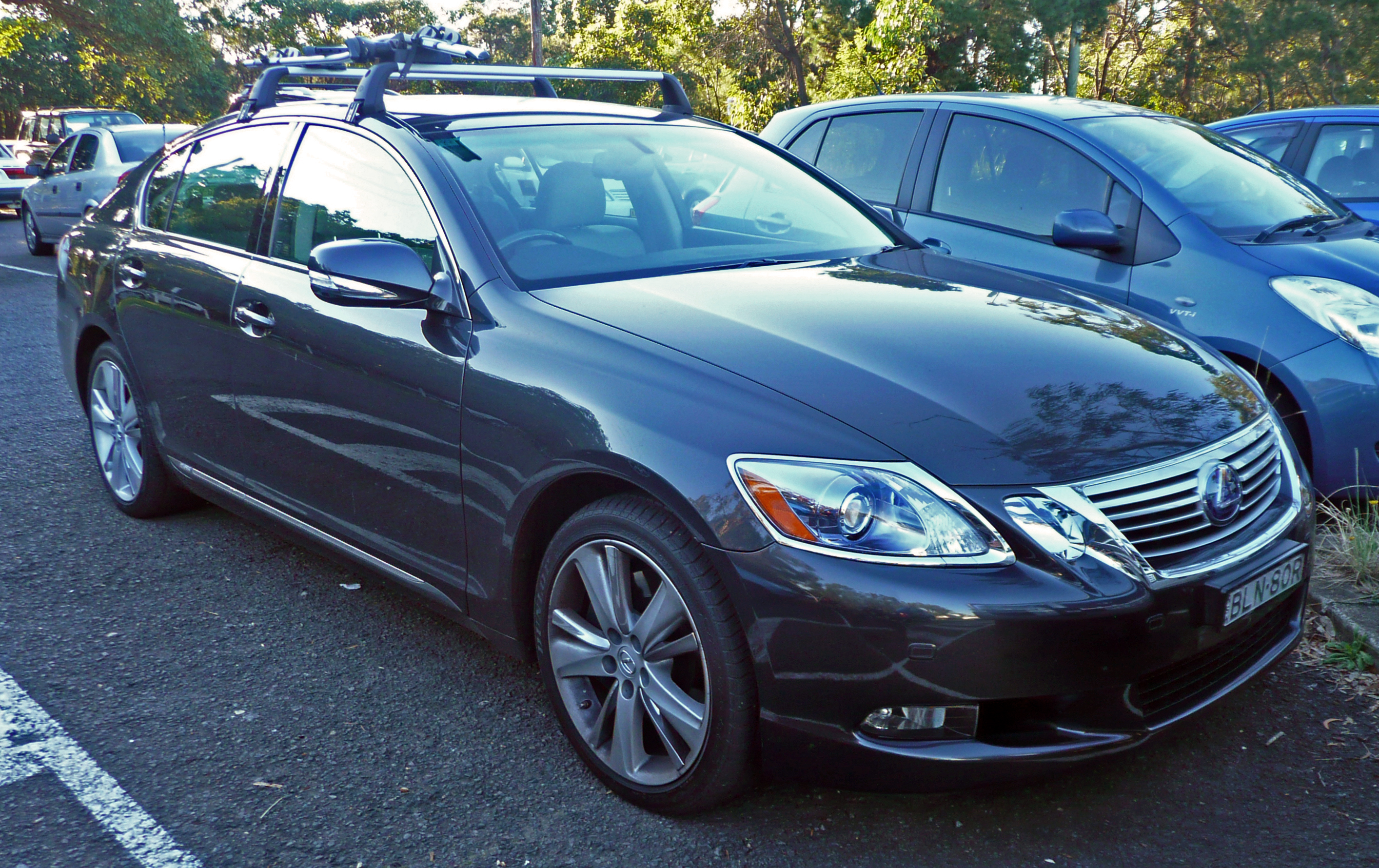 2009–2010 Lexus GS 450h (GWS191R) sedan. Photographed in Sutherland, New South Wales, Australia.